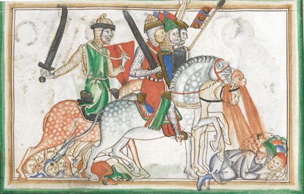 Folio 1r recto of a Apocalypse manuscript